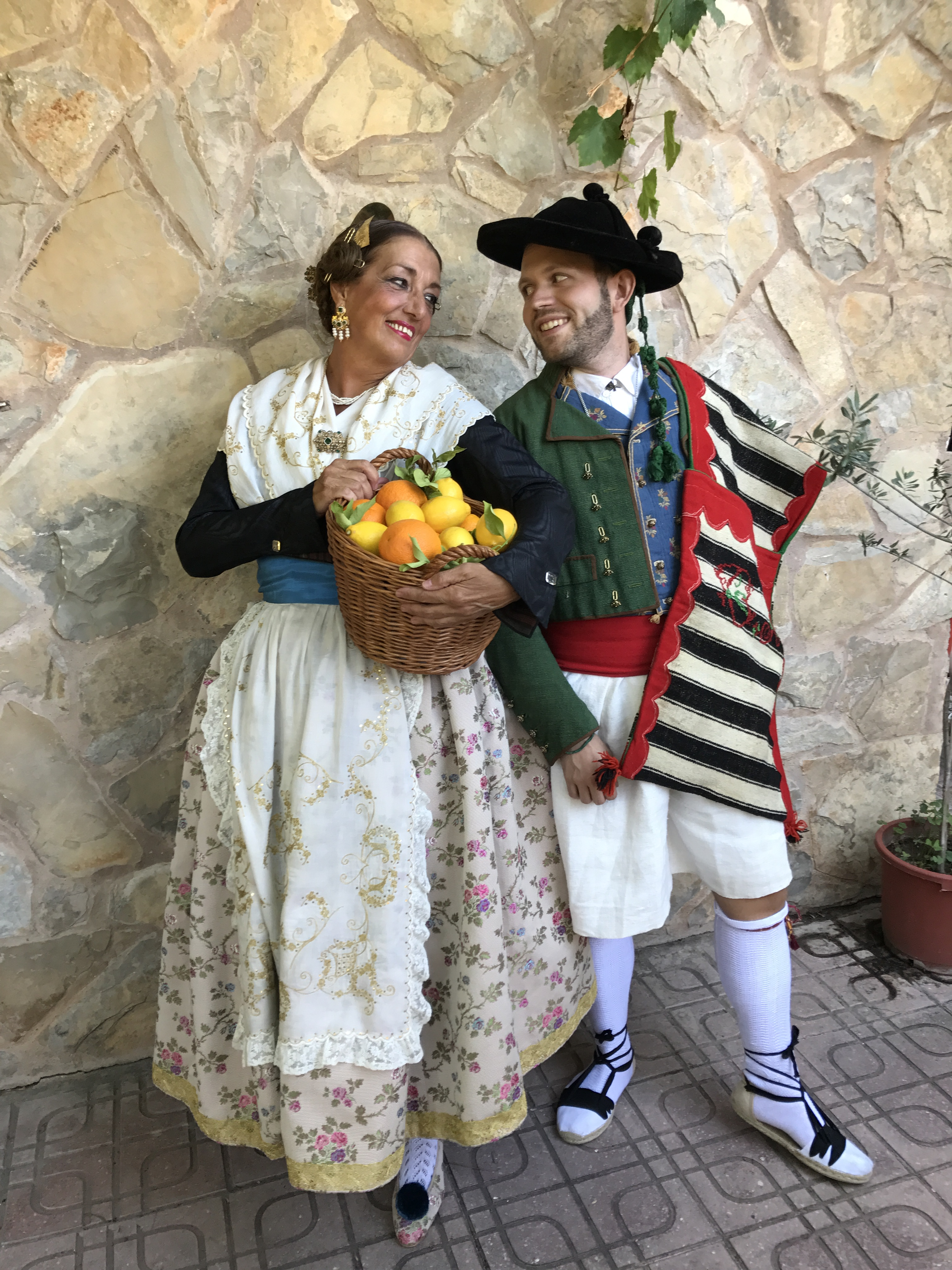 Pareja vestida a la manera tradicional valenciana y preparados para participar en la ofrenda a la Virgen de los Desamparados de Jérica (Castellón) el sábado día 12 de agosto. Con motivo de la recuperación de la antigua fiesta que la colonia de veraneantes y la cofradía de la Virgen de los Desamparados organizaba décadas atrás. This is a photography of a Folklore festival in Spain (Wikidata id Q47128911).